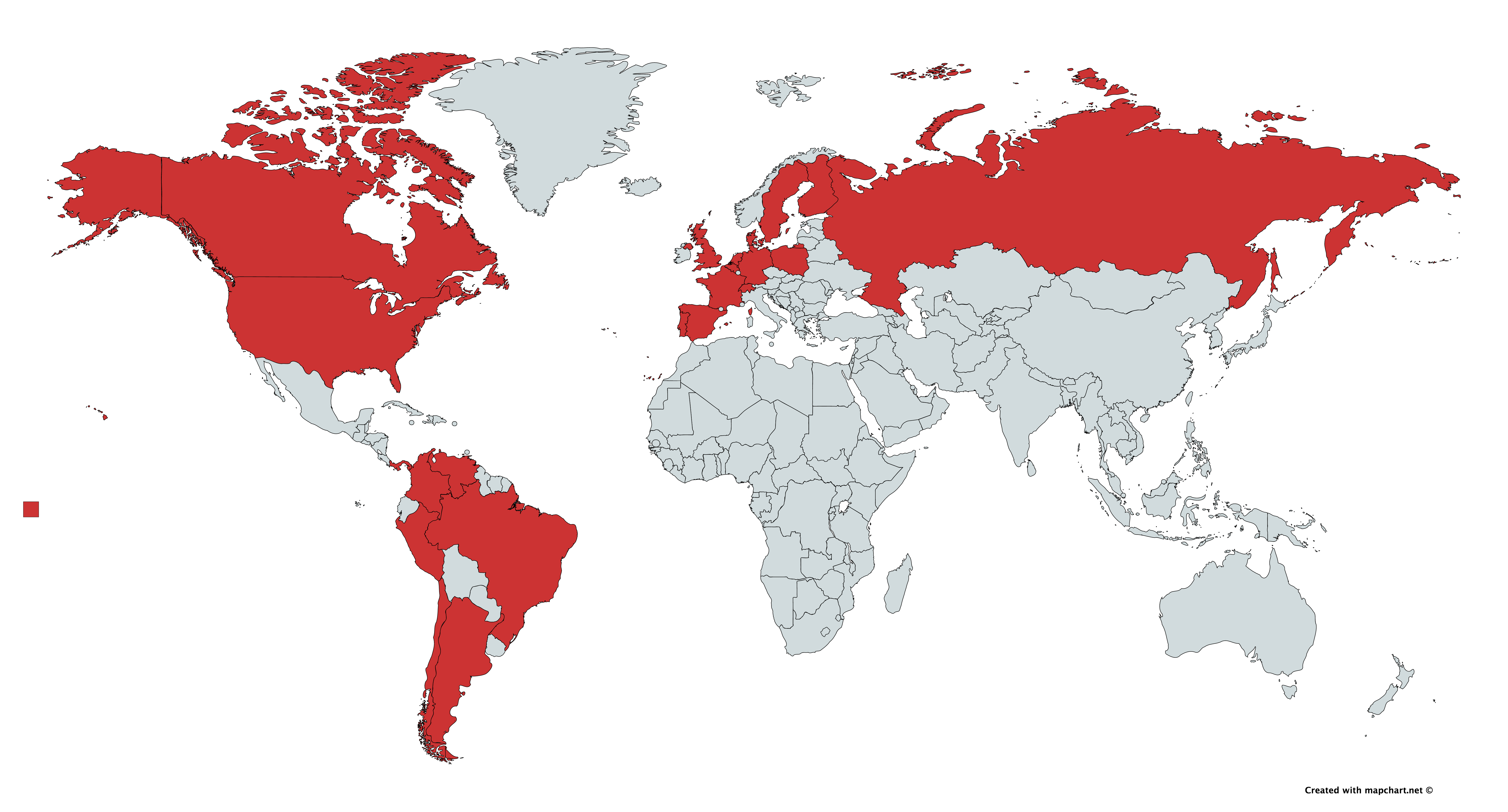 These are all of the countries served from Punta Cana International Airport in 2020.